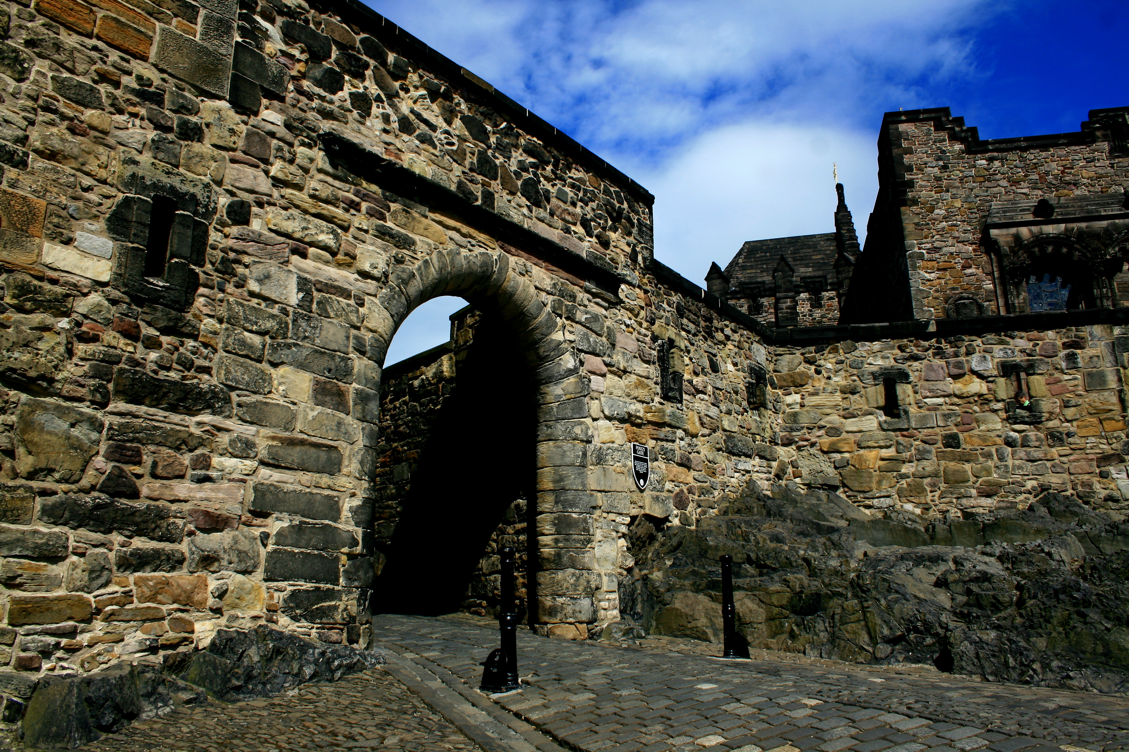 Aashish Rao Photography